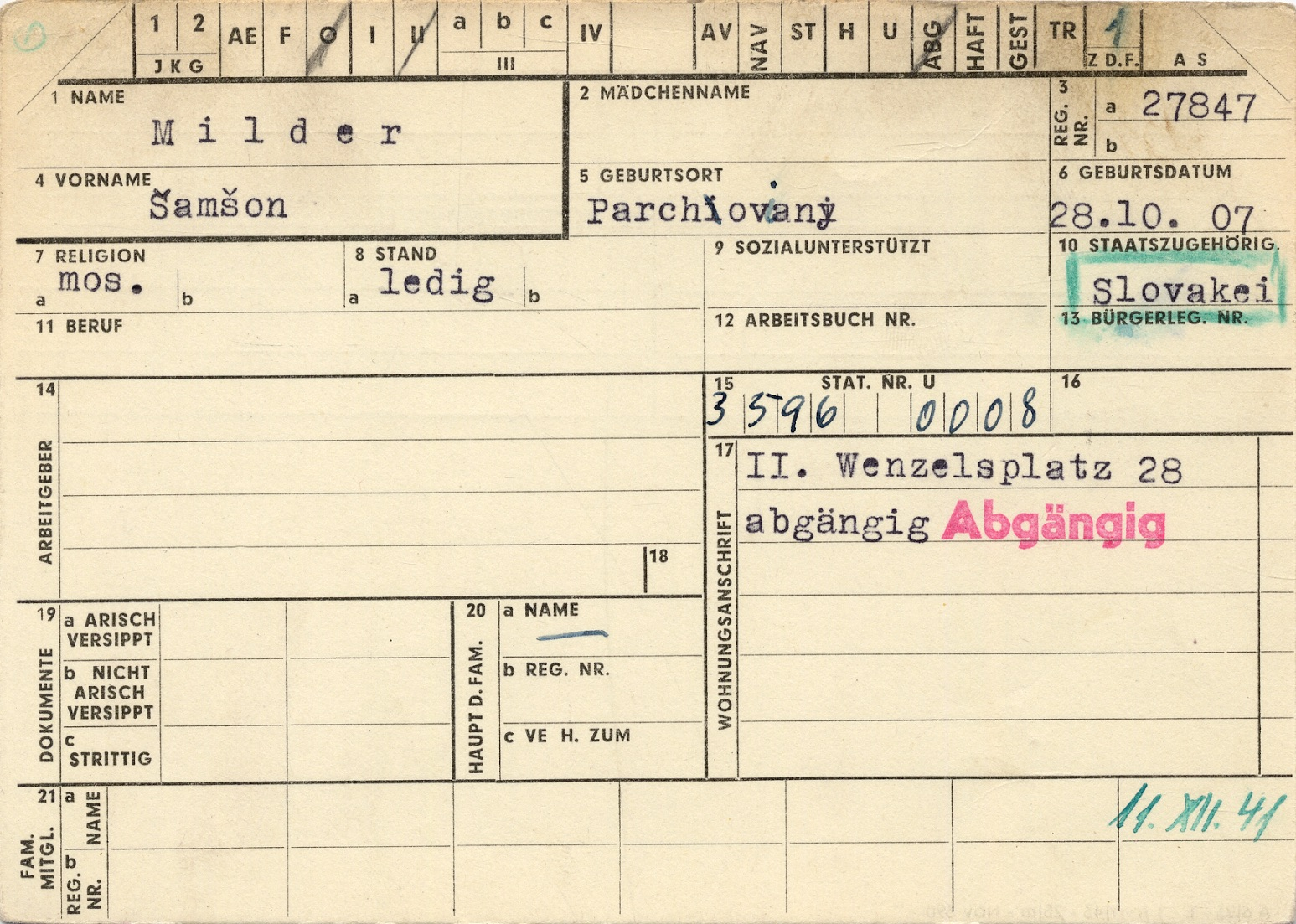 Identity card of Šamšon Milder (b. 1907), a Jew in the Protectorate of Bohemia and Moravia who has gone abgänging (missing)—known in Czech as potápky (sunk persons)